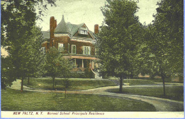 Postcard: "Principal's residence" at state Normal School (now State University of New York at New Paltz) campus, New Paltz, New York, 1909 postmark Description: caption on picture side of postcard: "New Paltz, N.Y. Normal School Principals Residence" Store Web page states: "Postcard, Pub by S Deyo & Son, New Paltz, N Y (Artino Series), [...] Postally Used - PM New Paltz, N Y Nov 11, 1909, One Cent Stamp Intact"